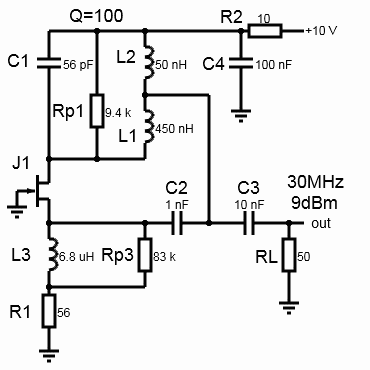 Hartley oscillator with JFET in common gate configuration